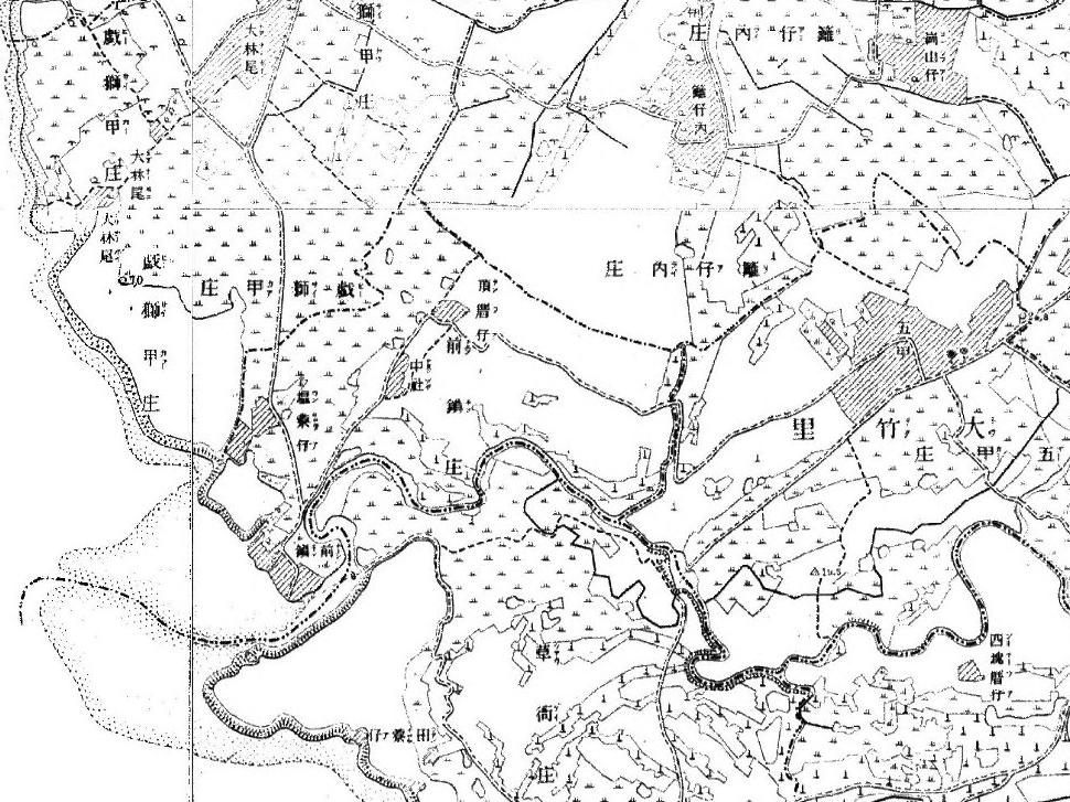 Cianjhen